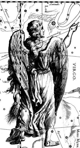 The Virgo constellation from Uranographia by Johannes Hevelius. The view is mirrored following the tradition of celestial globes, showing the celestial sphere in a view from "ouside"